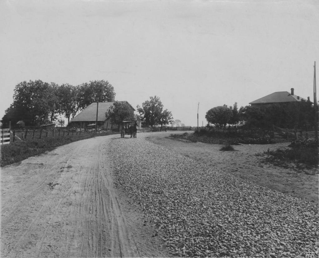 Photograph of Macadam Road, Nicolaus (Calif.). ca/ 1850s.